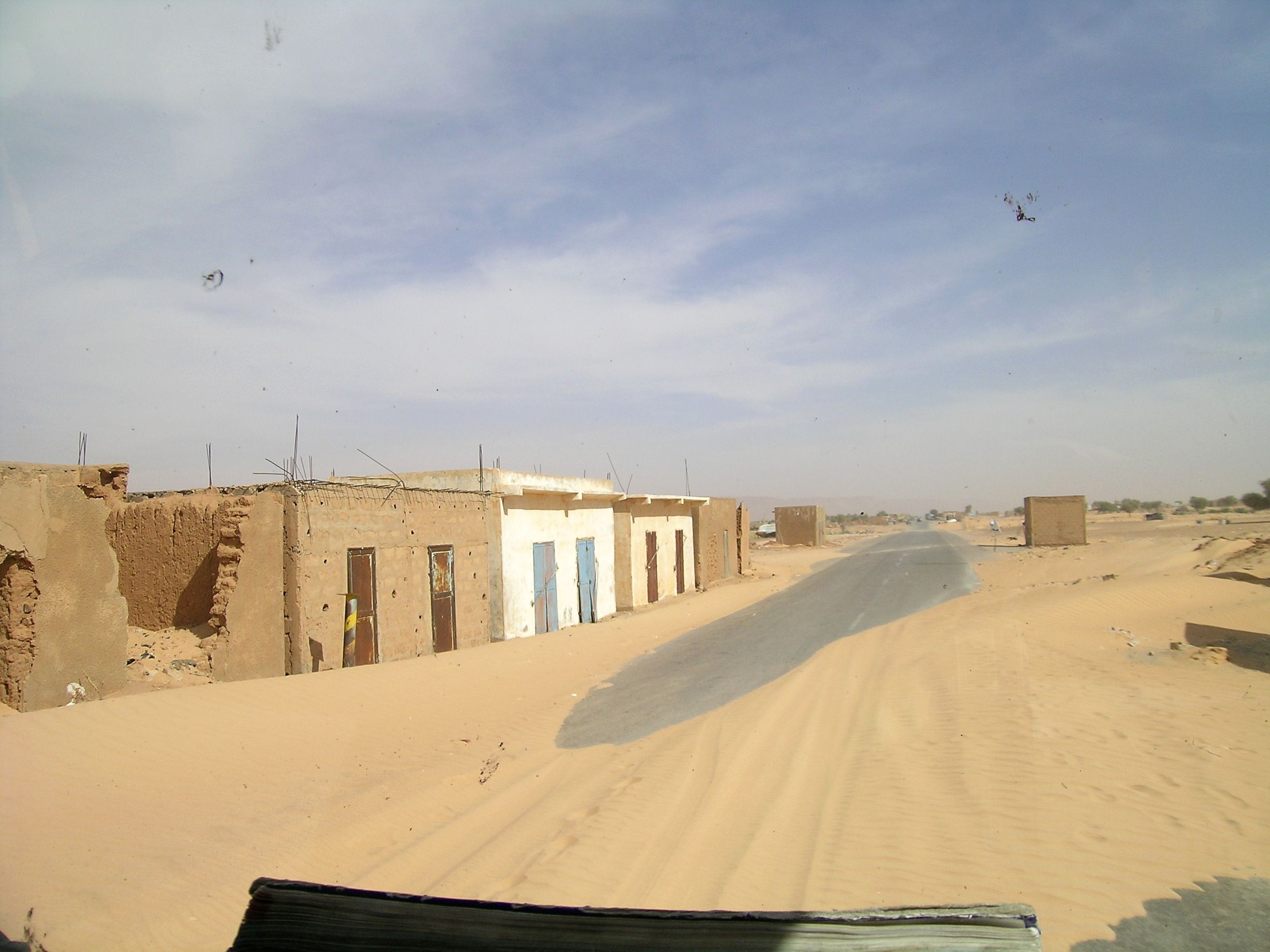 Village in Hodh El Gharbi region (Mauritania)